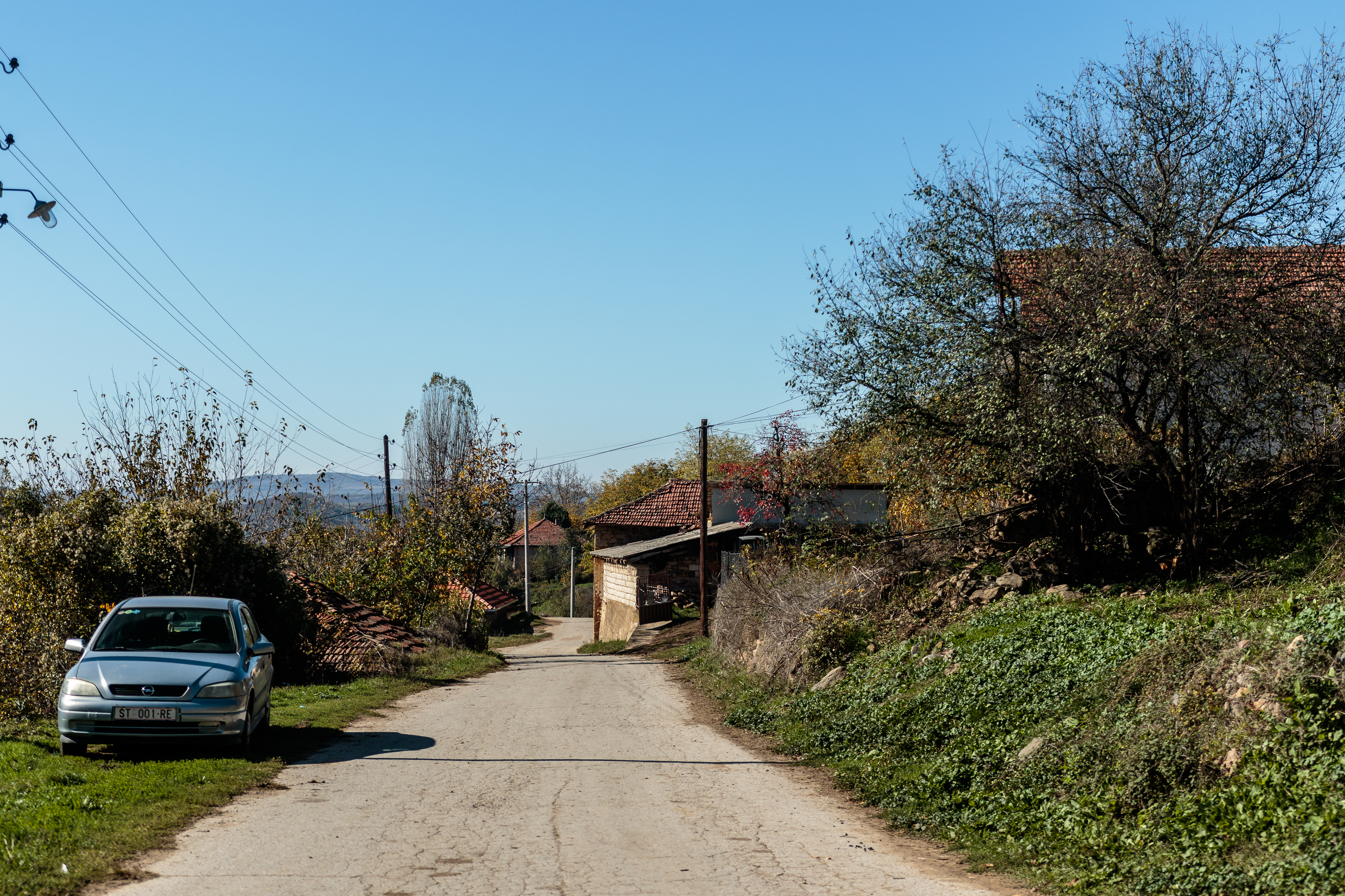 Houses in the village of Tursko Rudari, Zletovo-Probištip Region, Macedonia